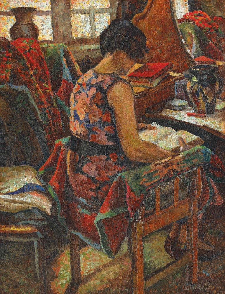 Leon Viorescu - Lectură, ulei pe carton, 64 x 49,5 cm, semnat dreapta jos, în pastă, L. Viorescu.